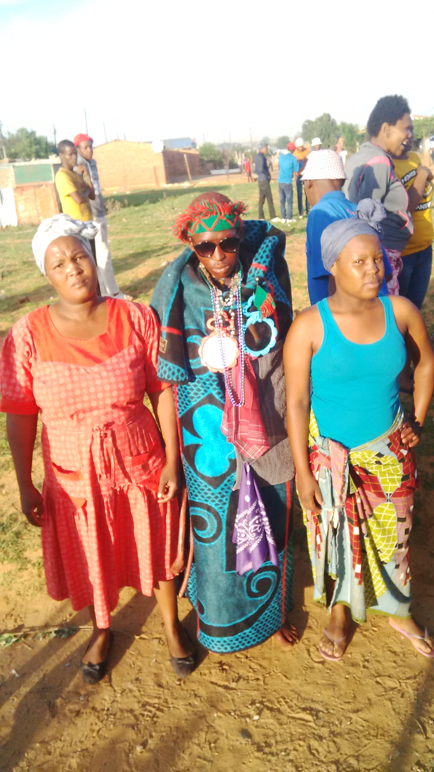 This is an image with the theme "Play" from: South Africa